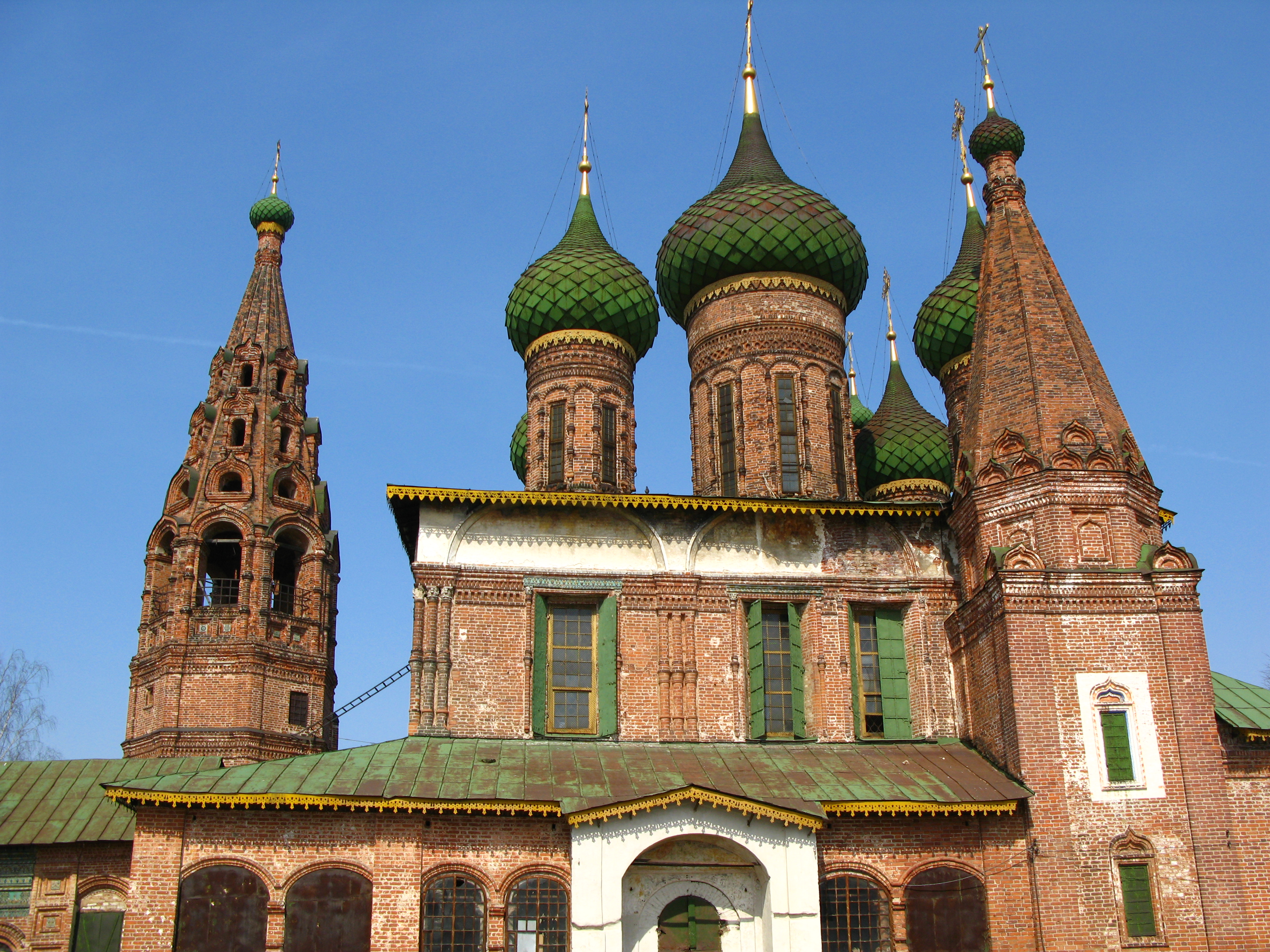 Church of St. Nikolay Mokry. Yaroslav, Russia.